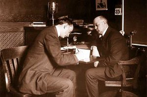 Ty Cobb signs his contract for 1908, when the photograph was taken